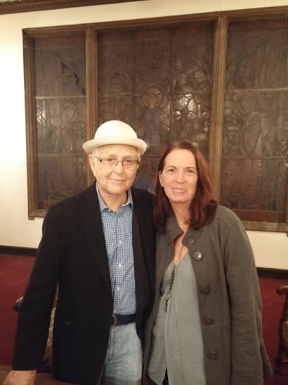 Day in Oct. 2014 in Seattle event